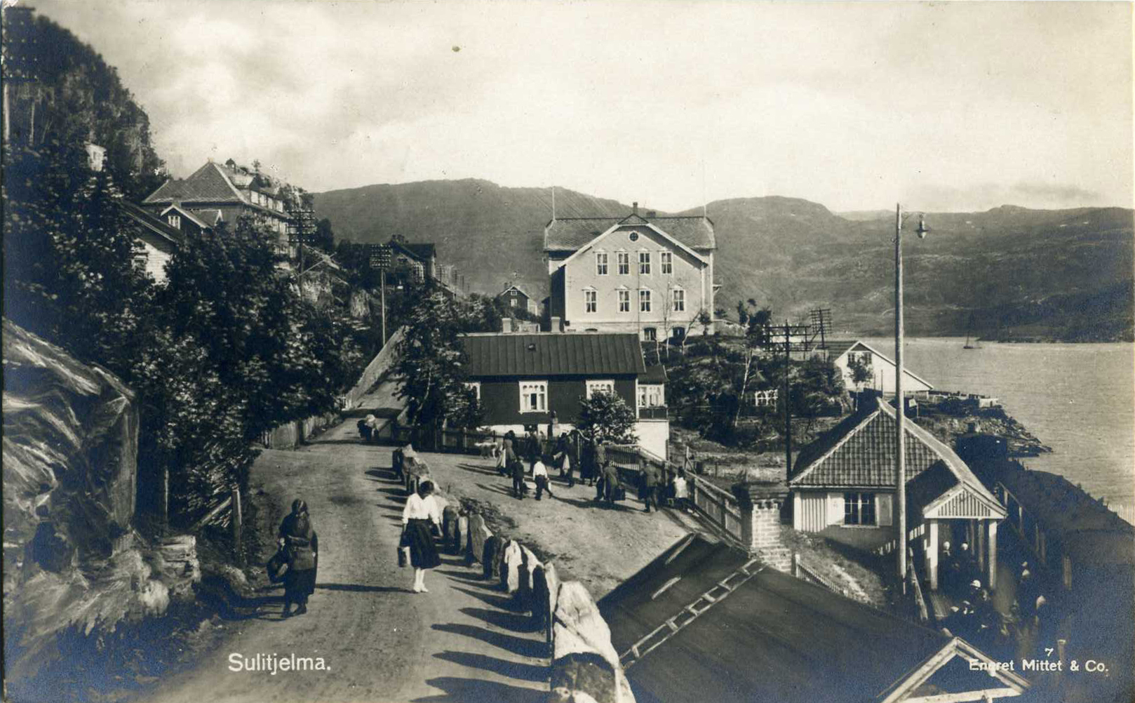 back of card